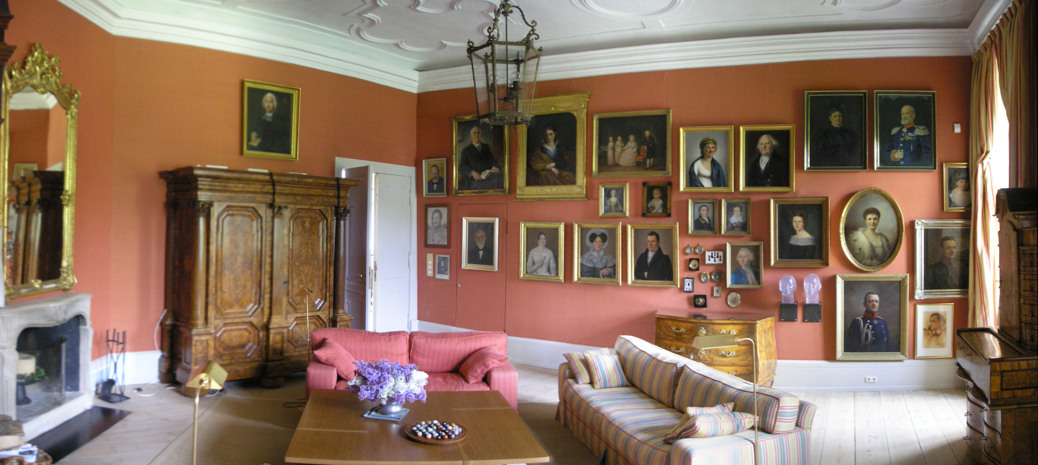 Panorama of four pictures of the red salon of Gut Hohen Luckow in Mecklenburg.